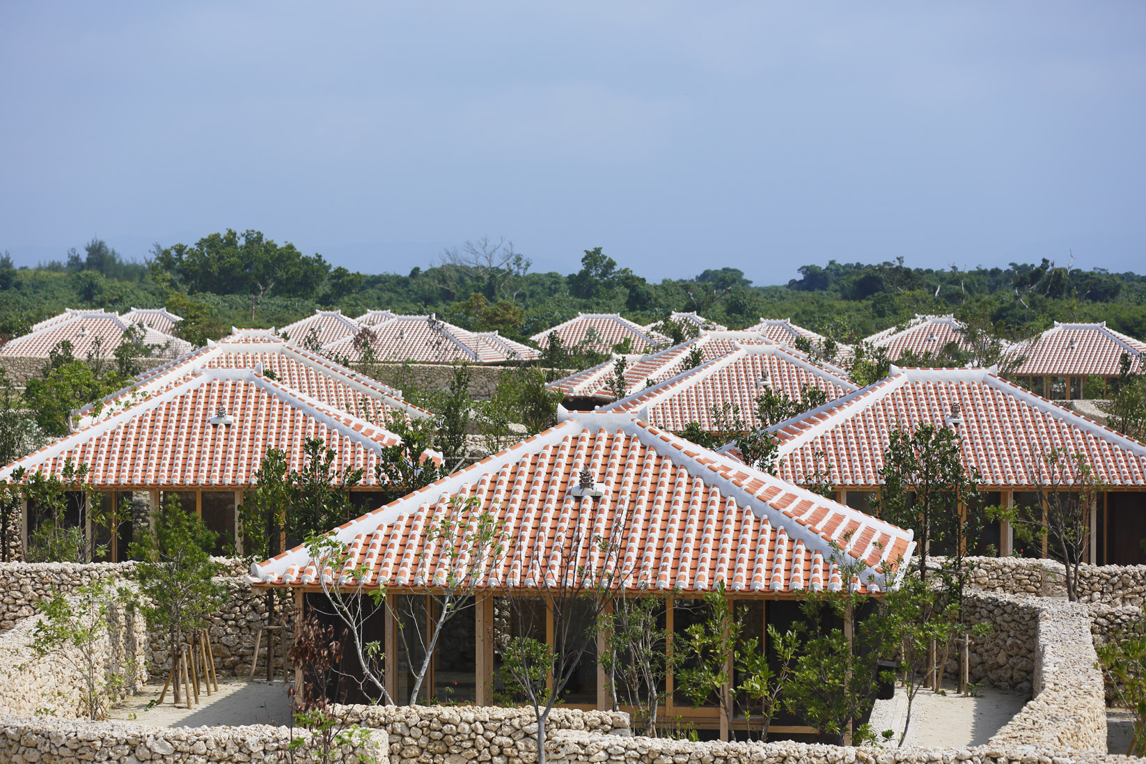 Hoshinoya Okinawa Village